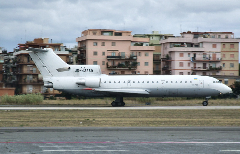 Lviv Airlines. Yak-42D taking off from Rome Ciampino airport.